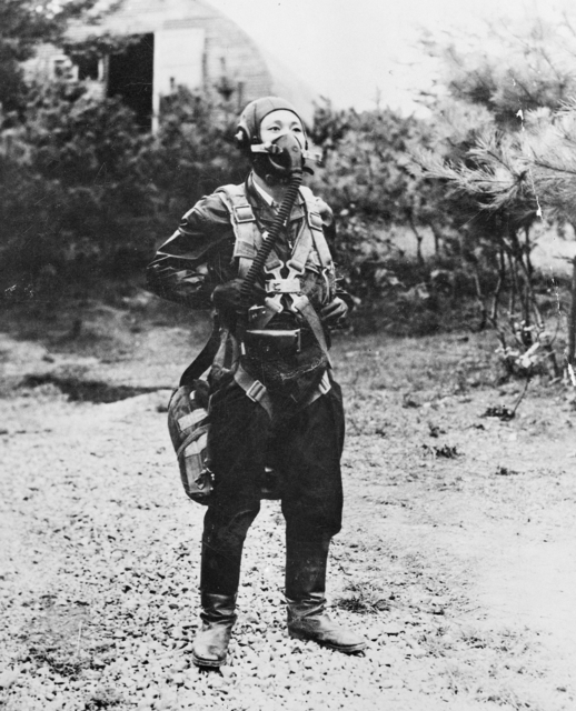 Portrait of North Korean pilot, Lieutenant (Lt) No Kum Sok (or No Kum So) wearing his flight uniform. Lt No Kum Sok landed his Russian built MiG 15 jet aircraft at the 77 Squadron RAAF base at Kimpo, South Korea, on 21 September 1953, and surrendered the aircraft to United Nations forces. After his defection from North Korea, No Kum Sok later settled in the USA. He became a US citizen, changed his name to Ken Rowe, and worked as an aviation engineer.